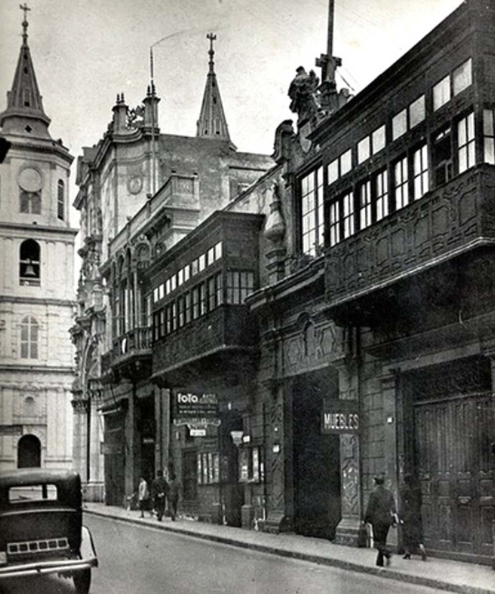 The Goyeneche Mansion in Lima, Peru